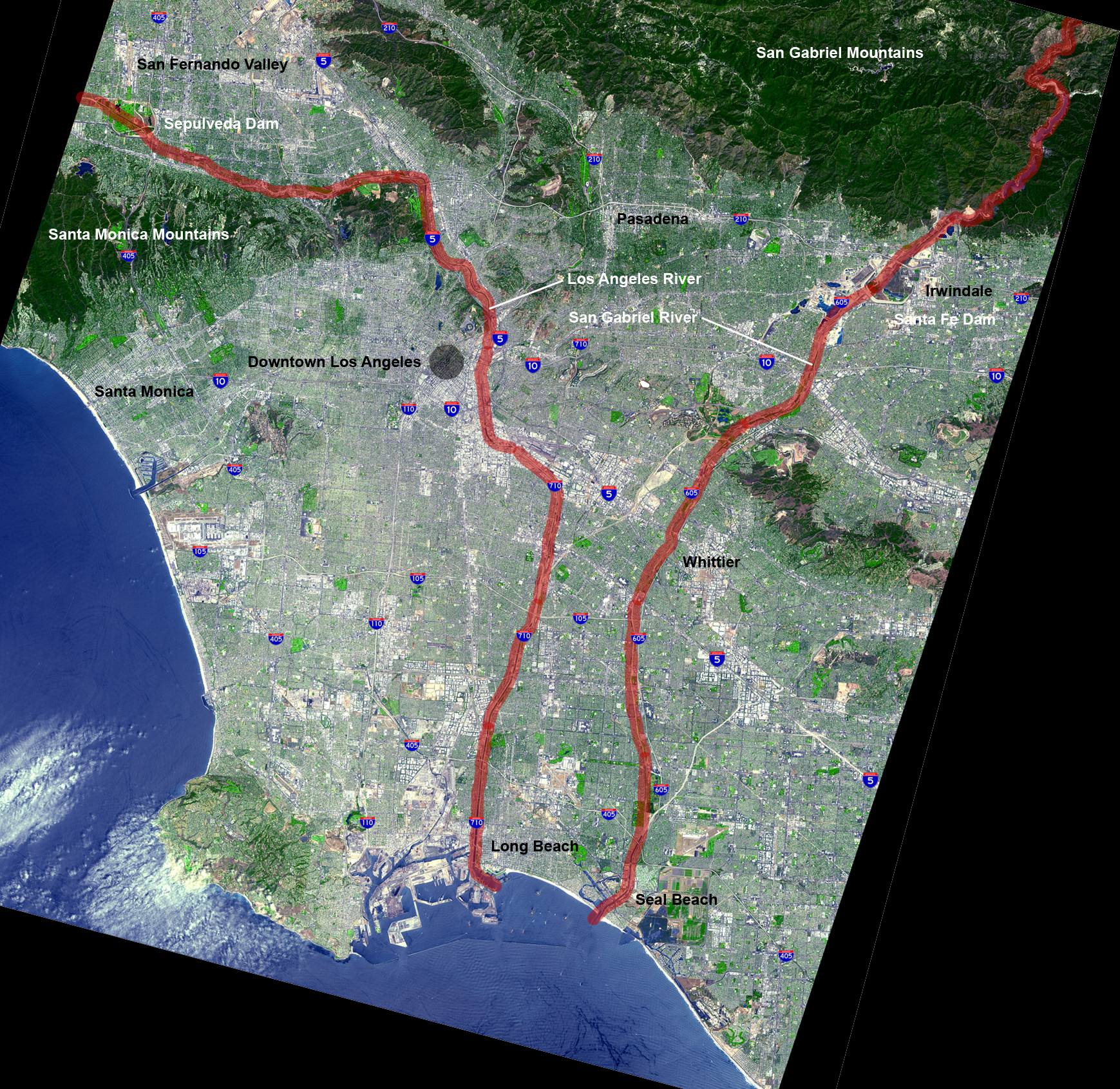 Map of the Los Angeles Basin with the Los Angeles River and San Gabriel River highlighted in red ladge